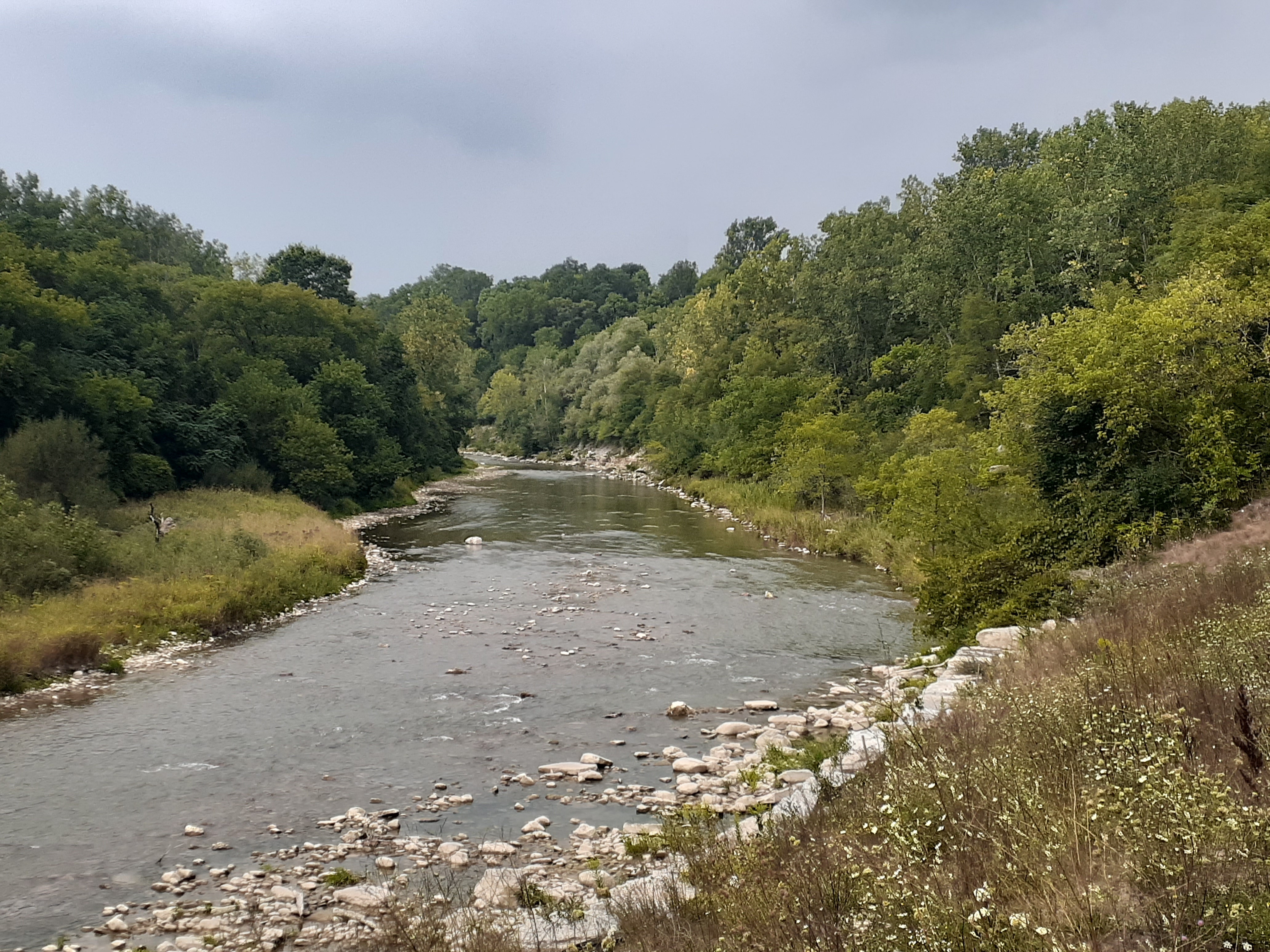 Barkers Bush and the Nith River in Paris, Ontario. August 2020.